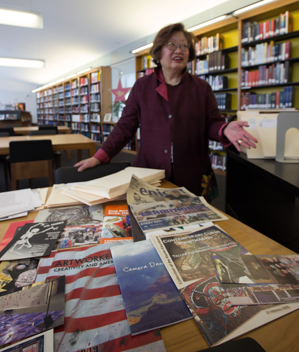 Marilyn Carbonell is leading the project